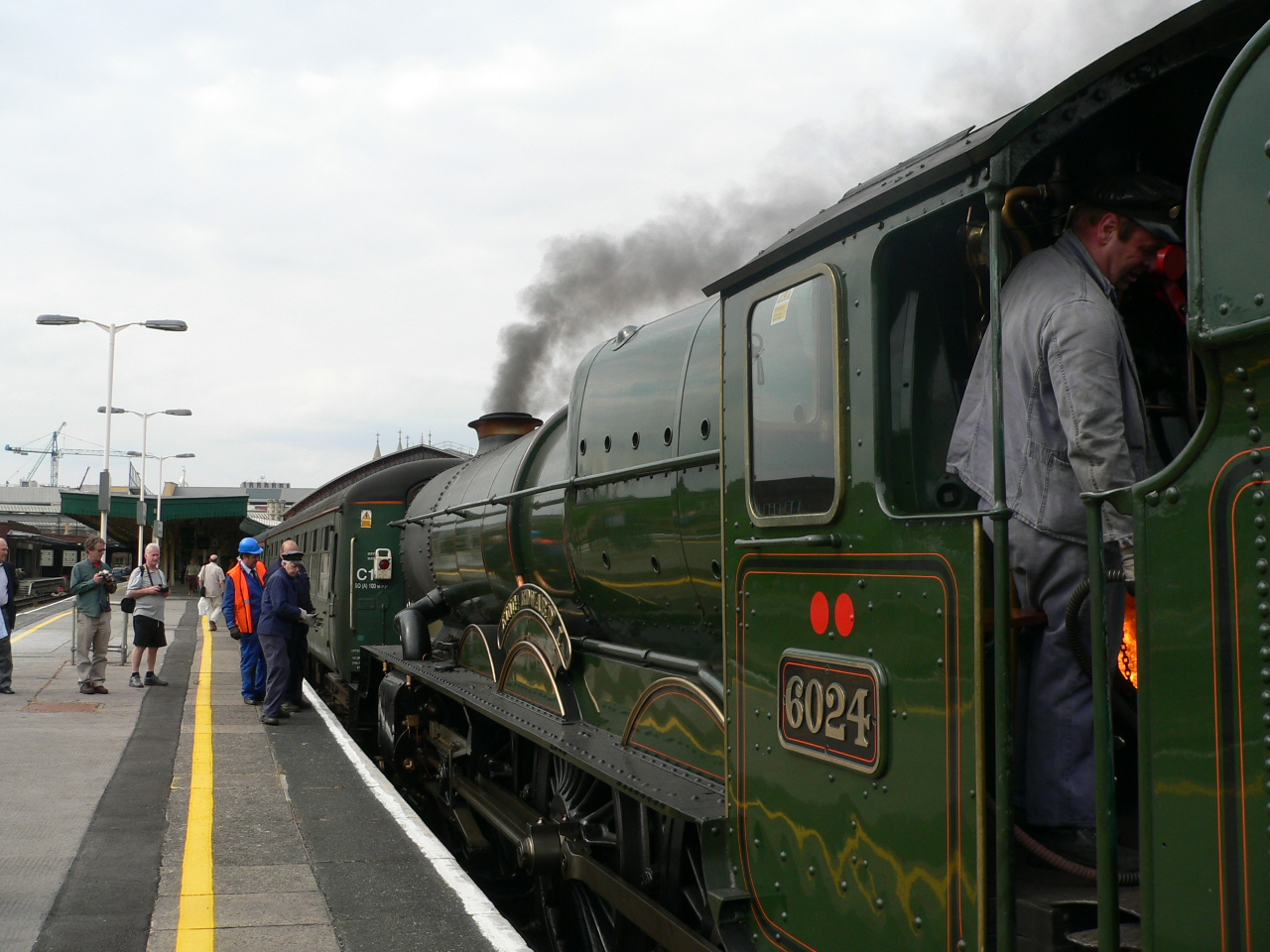 6024 "King Edward I" a GWR 4-6-0 King Class steam locomotive pauses after hauling the coaching stock to platform 4 at Bristol Temple Meads to build up some steam and allow enthusiasts a good look before runnig round the train to the northern end.